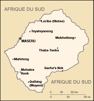 Lesotho Map with french version